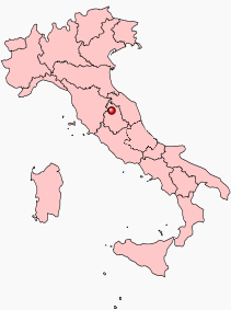 Dotted position of the city of Perugia in the Geographic map of the Republic of Italy. Derived from Image:Italy Regions 220px (including Pelagie Islands).png